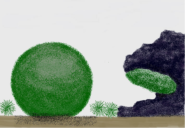 A drawing illustrating the three growth forms of Aegagropila linnaei.